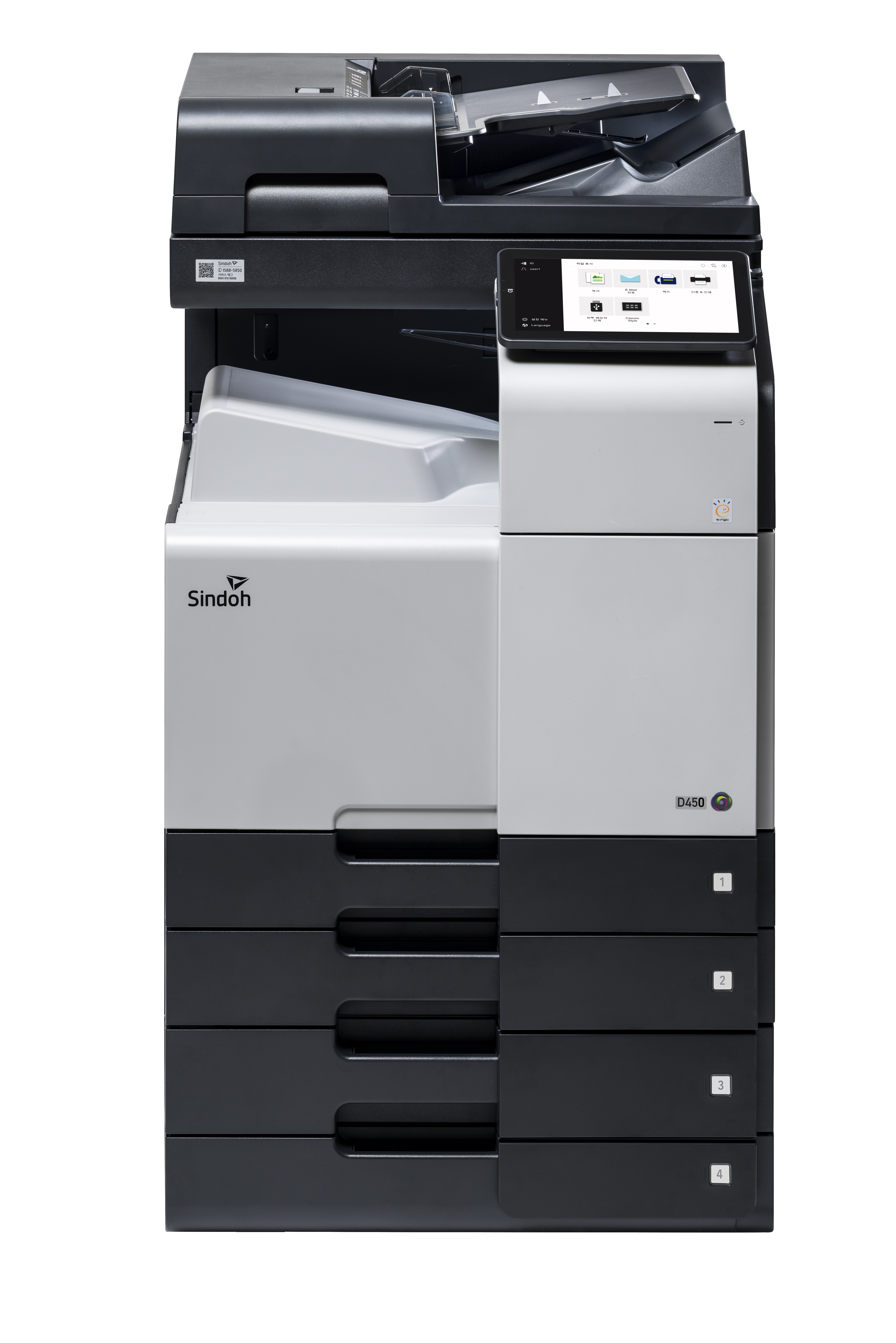 color digital MFP D450 series